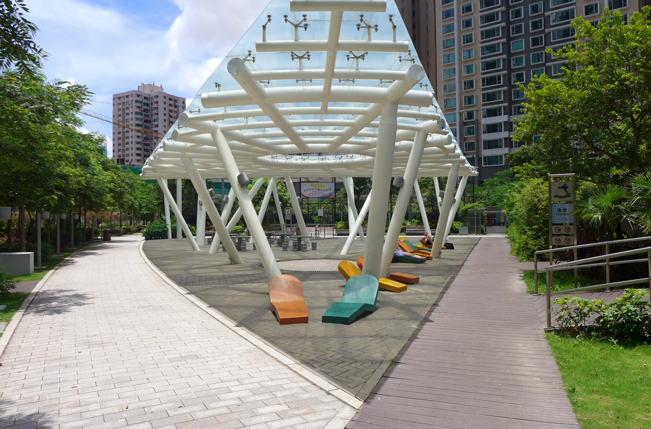 Taipa Central Park Covered Rest Area